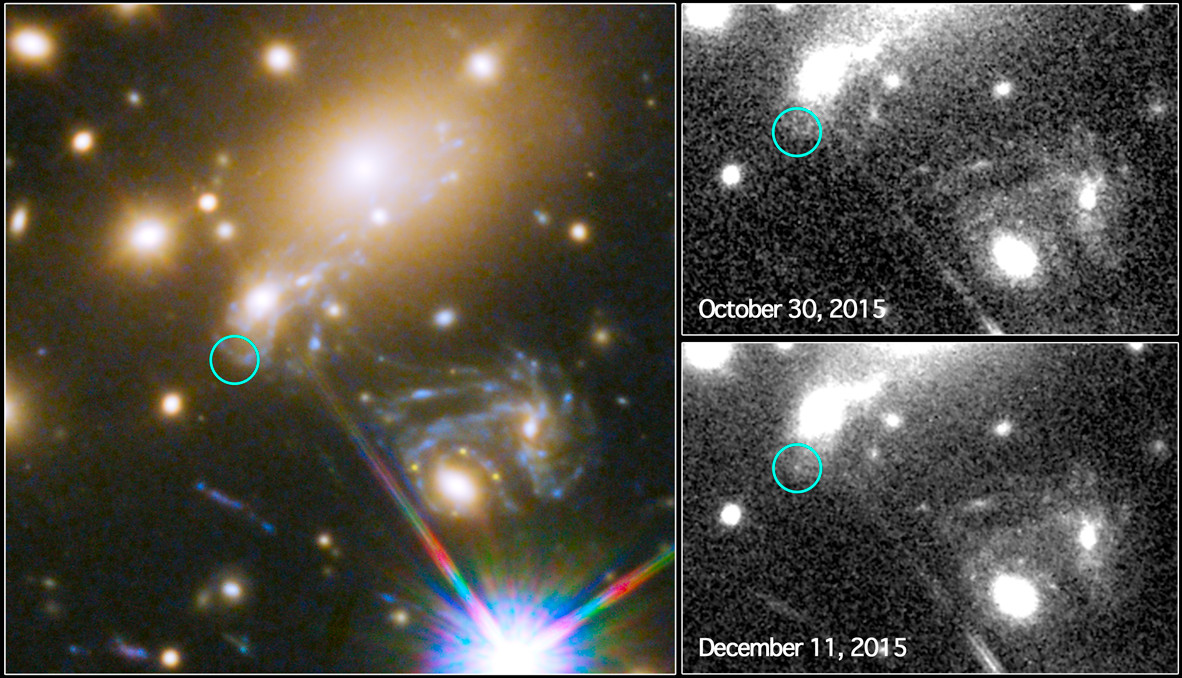 This image composite shows the search for the supernova, nicknamed Refsdal, using the NASA/ESA Hubble Space Telescope. The image to the left shows a part of the the deep field observation of the galaxy cluster MACS J1149.5+2223 from the Frontier Fields programme. The circle indicates the predicted position of the newest appearance of the supernova. To the lower right the Einstein cross event from late 2014 is visible as 4 yellow dots around the bright spot. The image on the top right shows observations by Hubble from October 2015, taken at the beginning of observation programme to detect the newest appearance of the supernova. The image on the lower right shows the discovery of the Refsdal Supernova on 11 December 2015, as predicted by several different models.